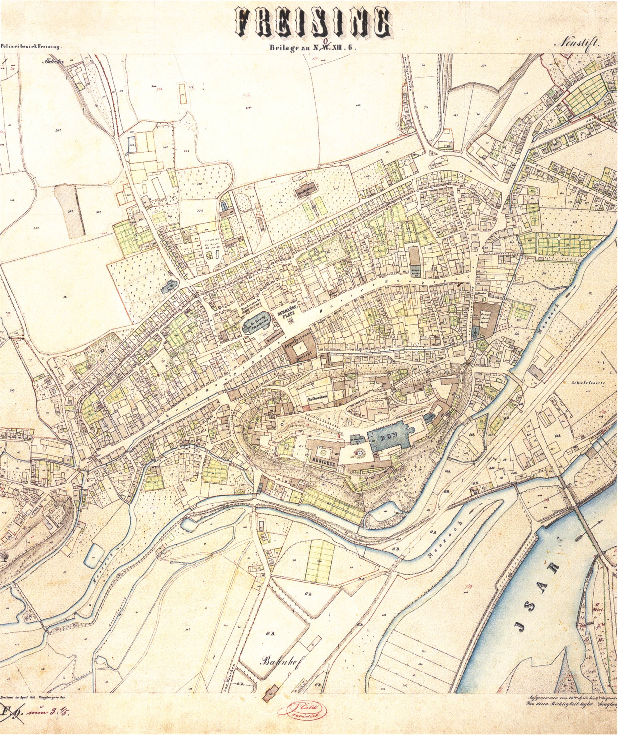 map of Freising 1858